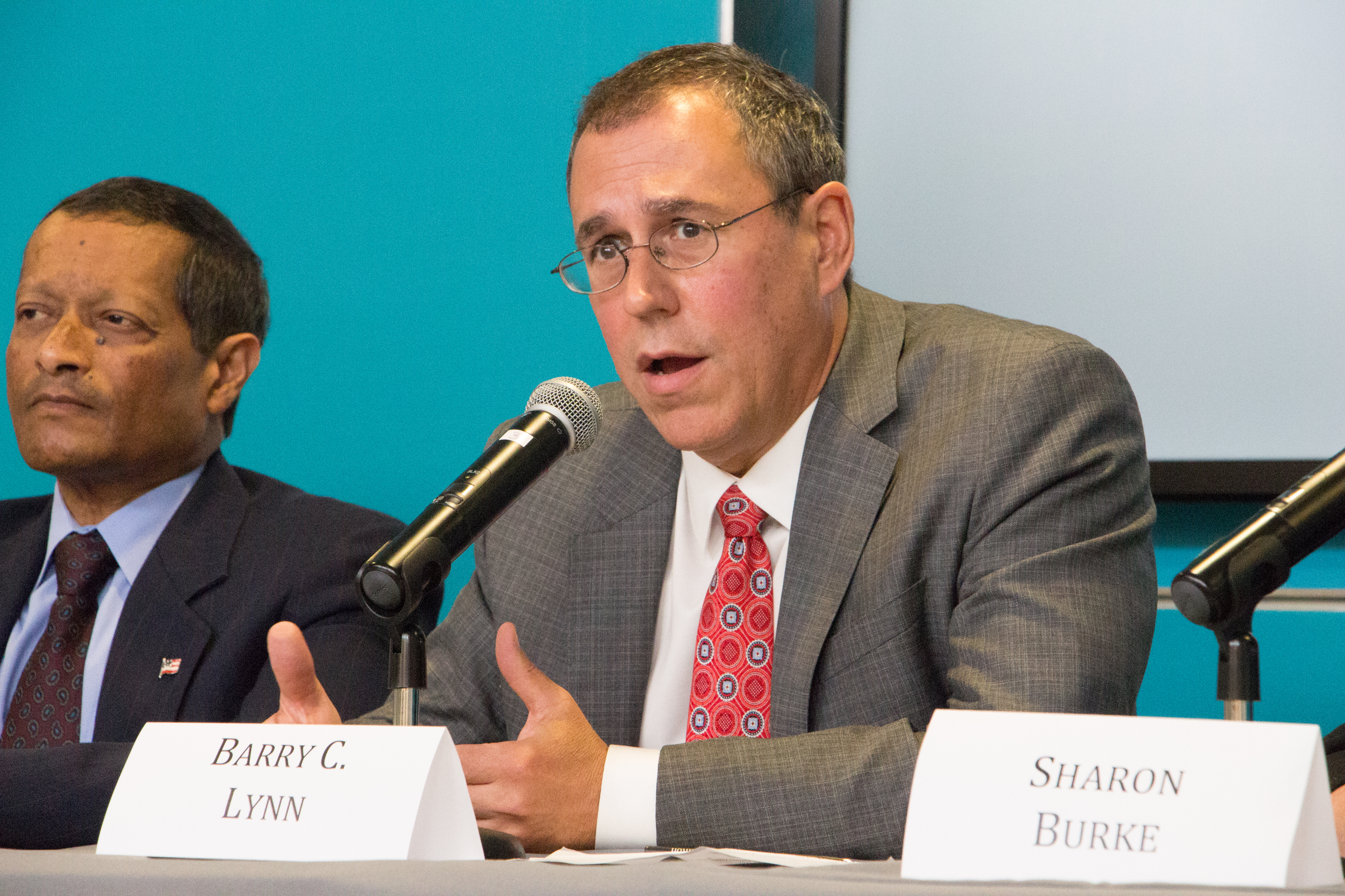 Christopher Gopal, Former senior operations executive at several leading global companies, Author, Supercharging Supply Chains; Barry Lynn, Author, End of the Line: The Rise and Coming Fall of the Global Corporation